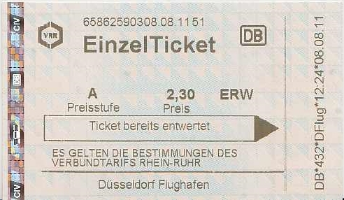 German short-distance railway ticket